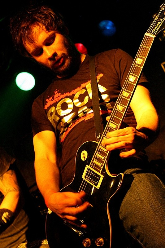 Black River, Lublin, Graffiti, 10.12.2008